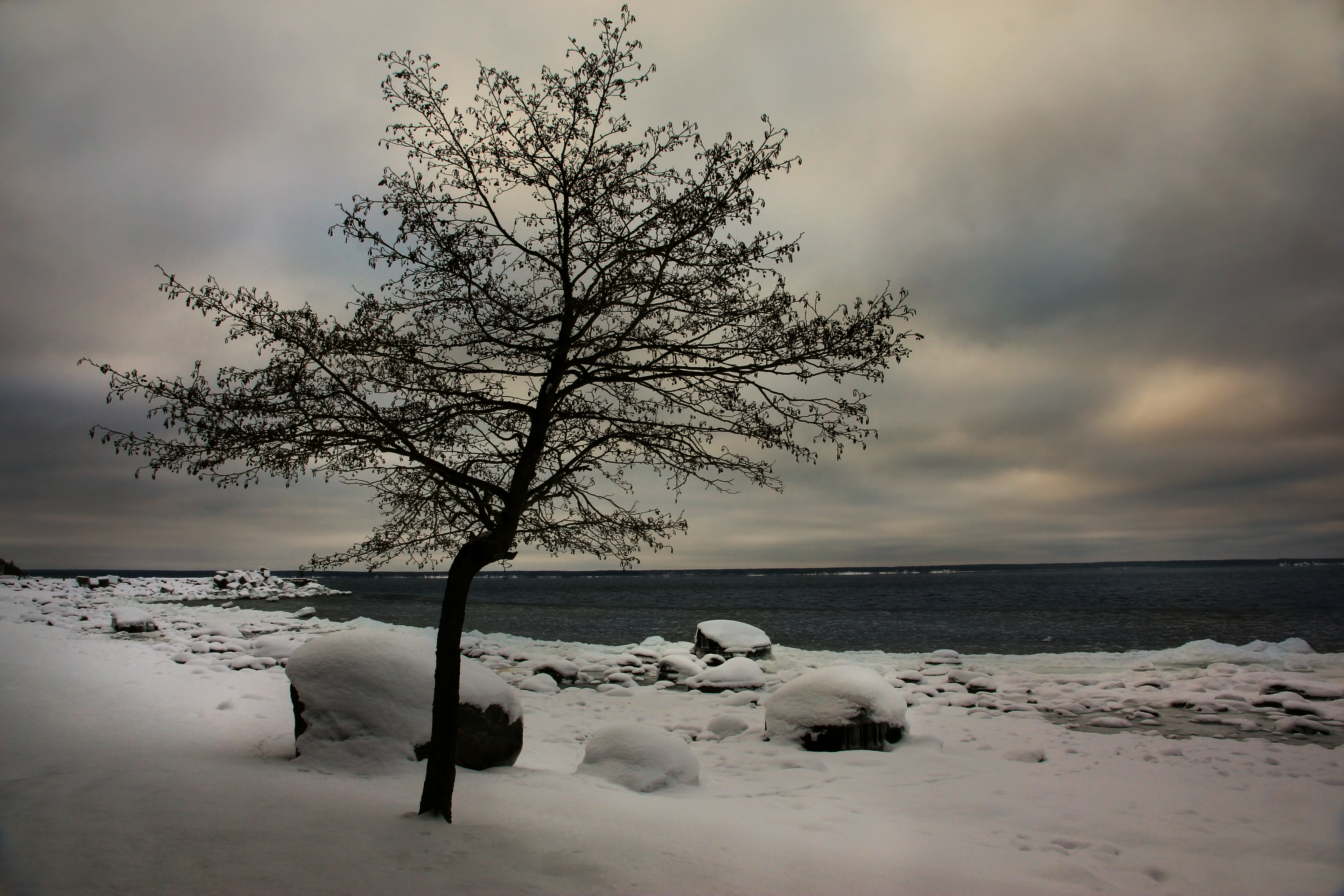 Hara Bay. Gulf of Finland.Kuusalu Parish.Estonia.